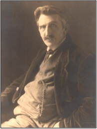 Paul Frosch 1925